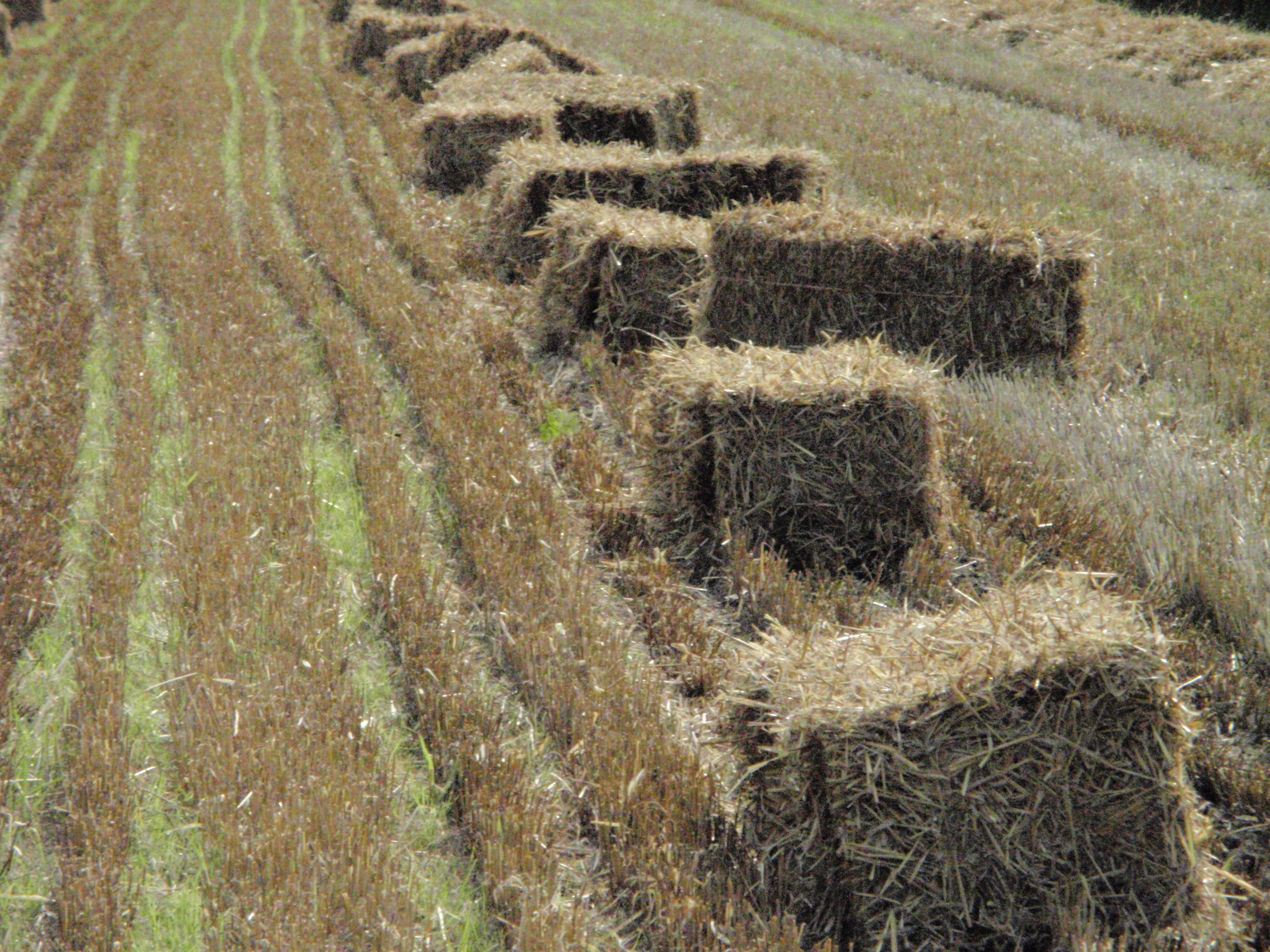 Rectangular bales of straw